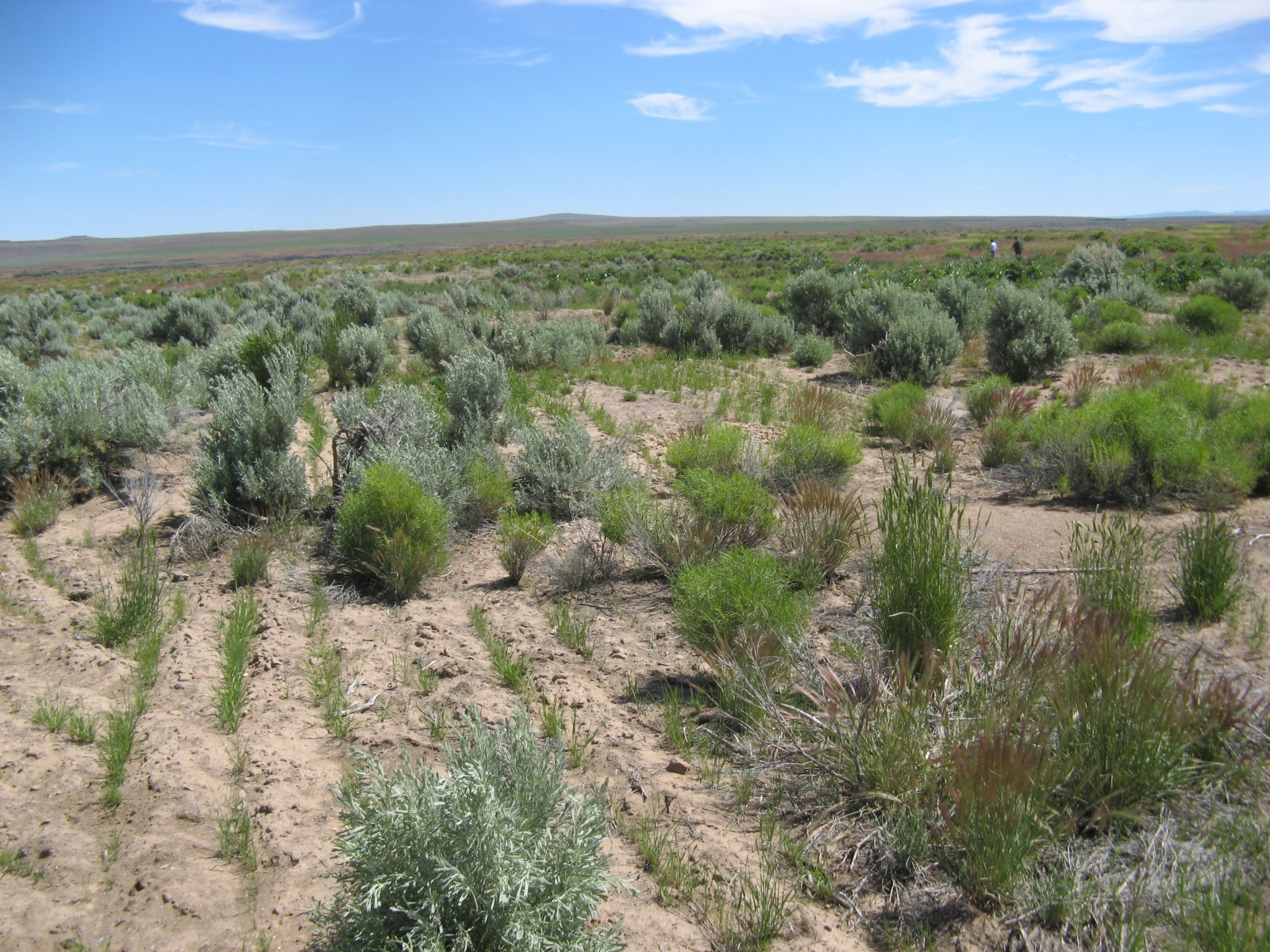 EBIPM rangeland restoration management in Jordan Valley, SE Oregon. Habitat of the Great Basin region of Oregon.